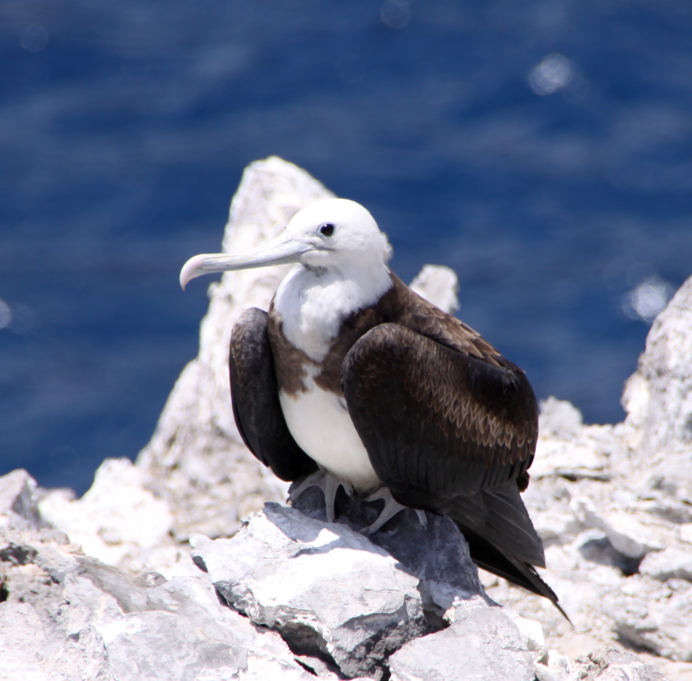 Ascension Frigatebird, Southeast Bay This is a juvenile. Both male and female adults have a dark head. See: Walbridge, Grahame; Small, Brian; McGowan, Robert Y (2003). "From the Rarities Committee’s files: Ascension Frigatebird on Tiree – new to the Western Palearctic". British Birds 96 (2): 58–73. Females have a brown breast-band and sometimes a white belly.